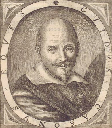 Italian poet, jurist and scholar Guido Casoni (1561-1642). Engraving from Girolamo Brusoni, Le Glorie de gli incogniti, o vero gli Huomini illustri dell' Accademia de' signori incogniti di Venetia, F. Valvasense, Venetia, 1647.